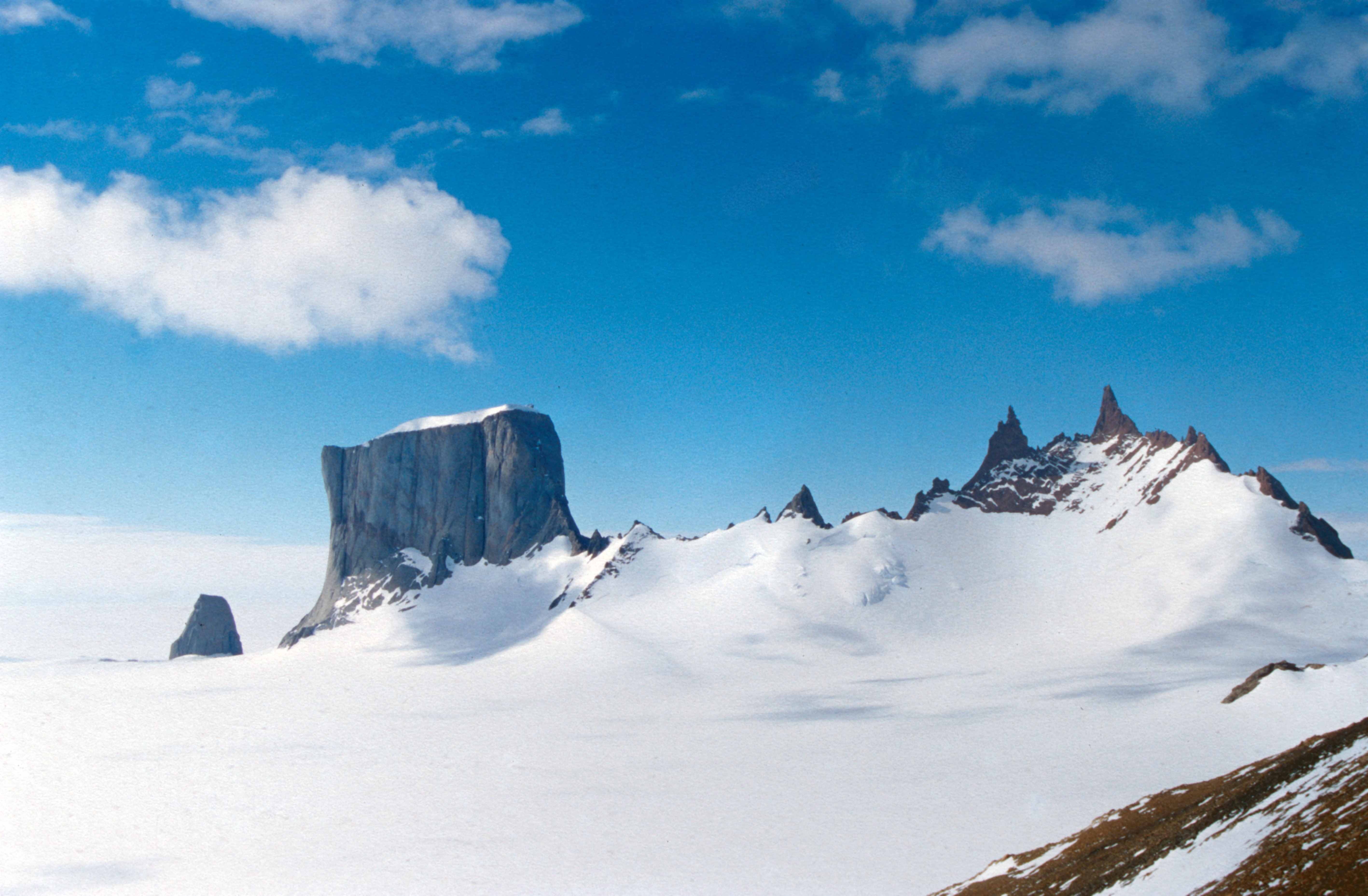 Hoggestabben and Hochlinfjellet in Queen Maud Land, Antarctica, view from the West